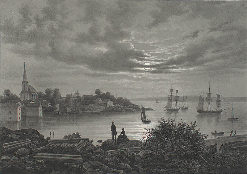 Pictures from the work "Norge fremstillet i Tegninger" from 1848 by Christian Tønsberg. The picture depicts Larvik, Vestfold county, Norway.